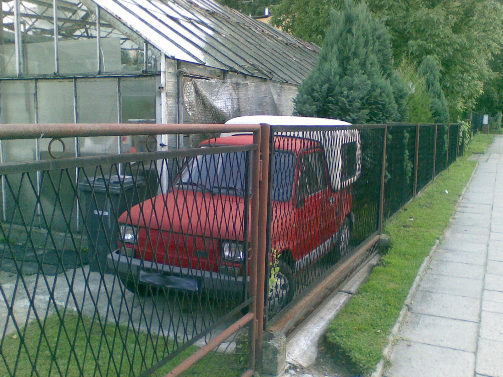 Fiat 126p BOMBEL.